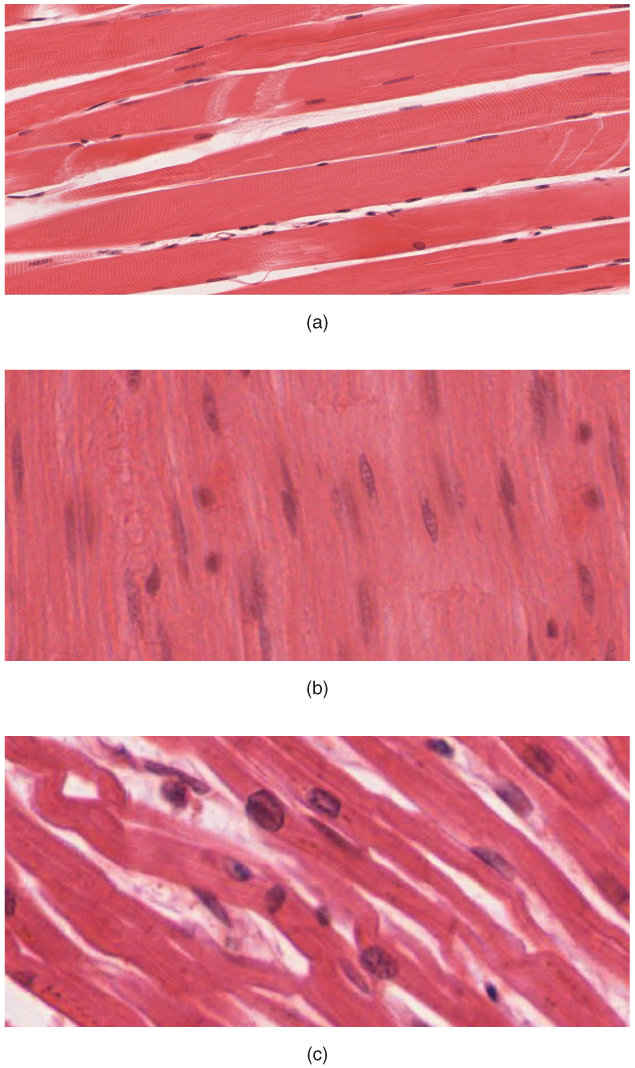 The body contains three types of muscle tissue: (a) skeletal muscle, (b) smooth muscle, and (c) cardiac muscle. From top, LM × 1600, LM × 1600, LM × 1600. (Micrographs provided by the Regents of University of Michigan Medical School © 2012)